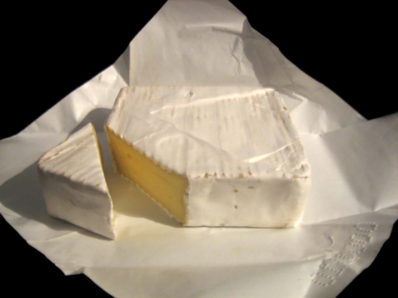 "Carré de l'Est": french cheese from the region Lorraine